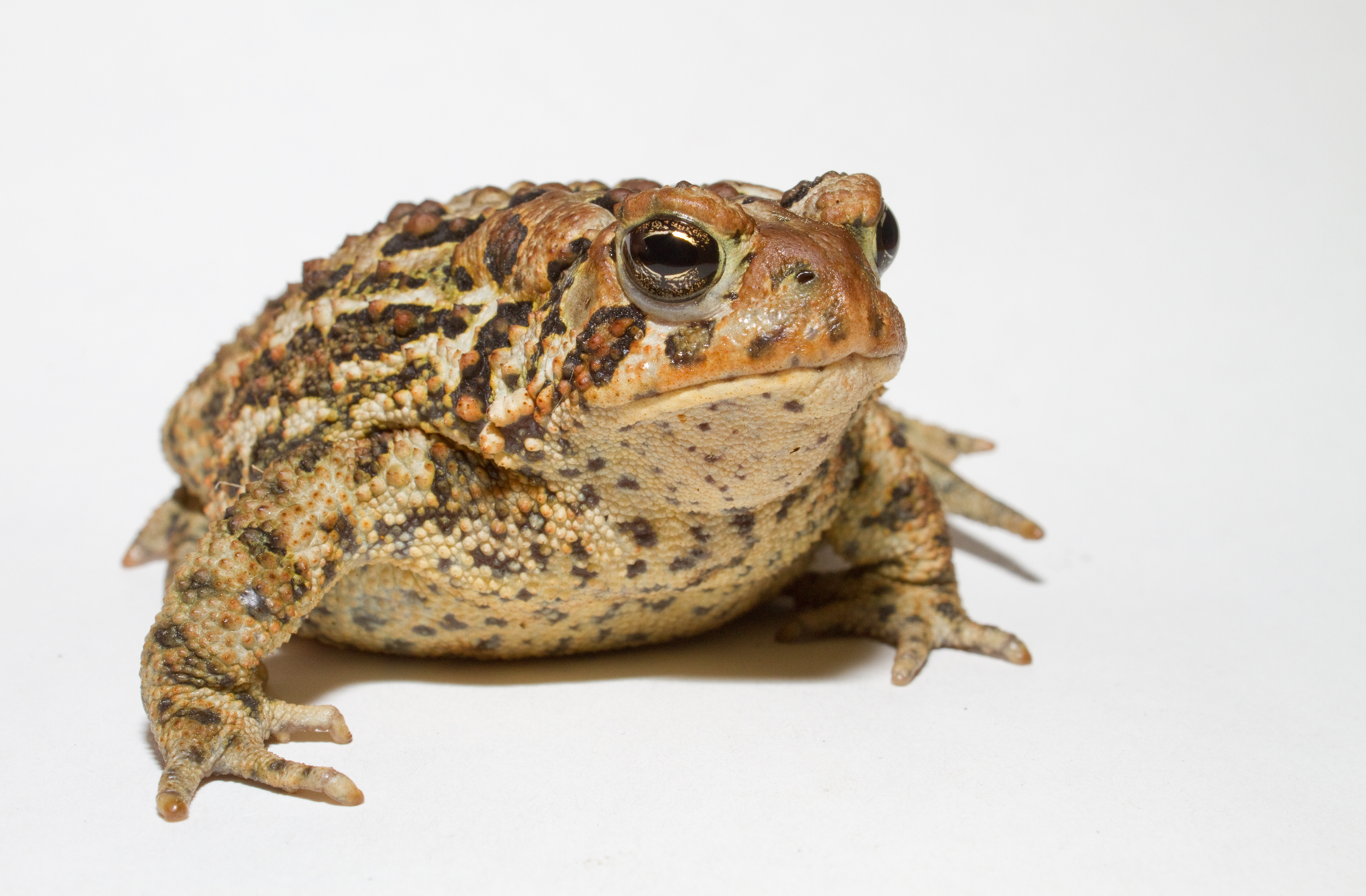 Anaxyrus americanus - American toad